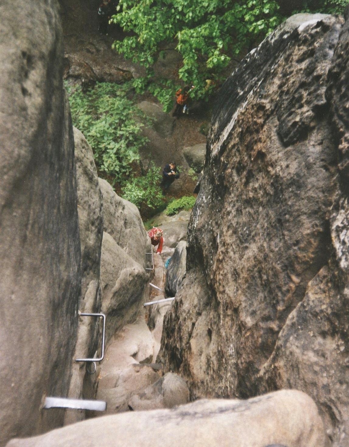 This image shows the "Rübezahlstiege", a Via ferrate in the Saxon Switzerland.